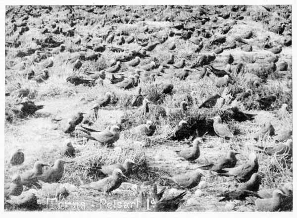 This is photograph of Brown Noddy terns on Pelsaert Island in the Houtman Abrolhos.